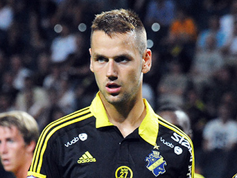 AIK defender.